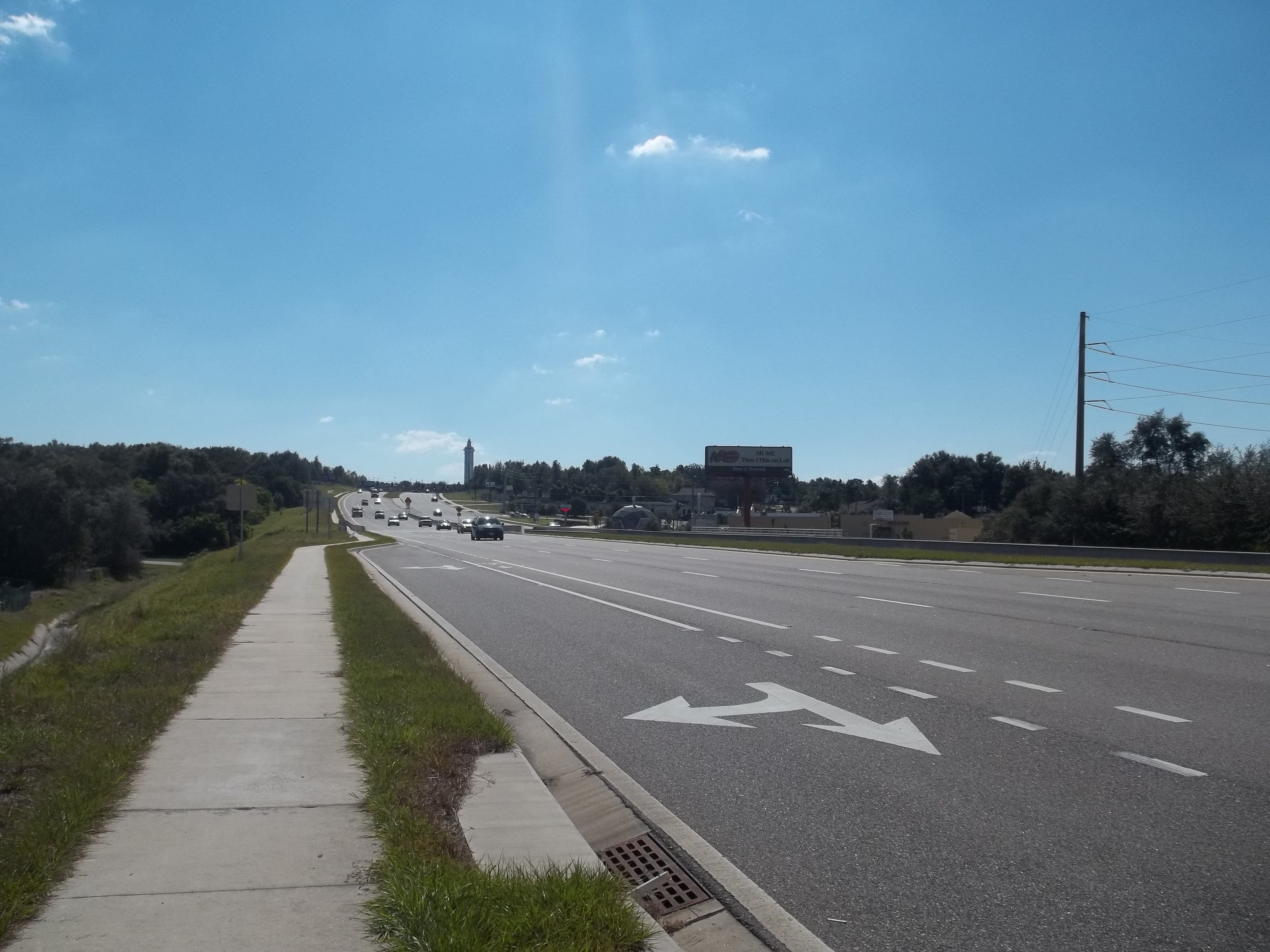 Minneola, Florida: U.S. Route 27, looking south. The Florida Citrus Tower is visible in the distance.